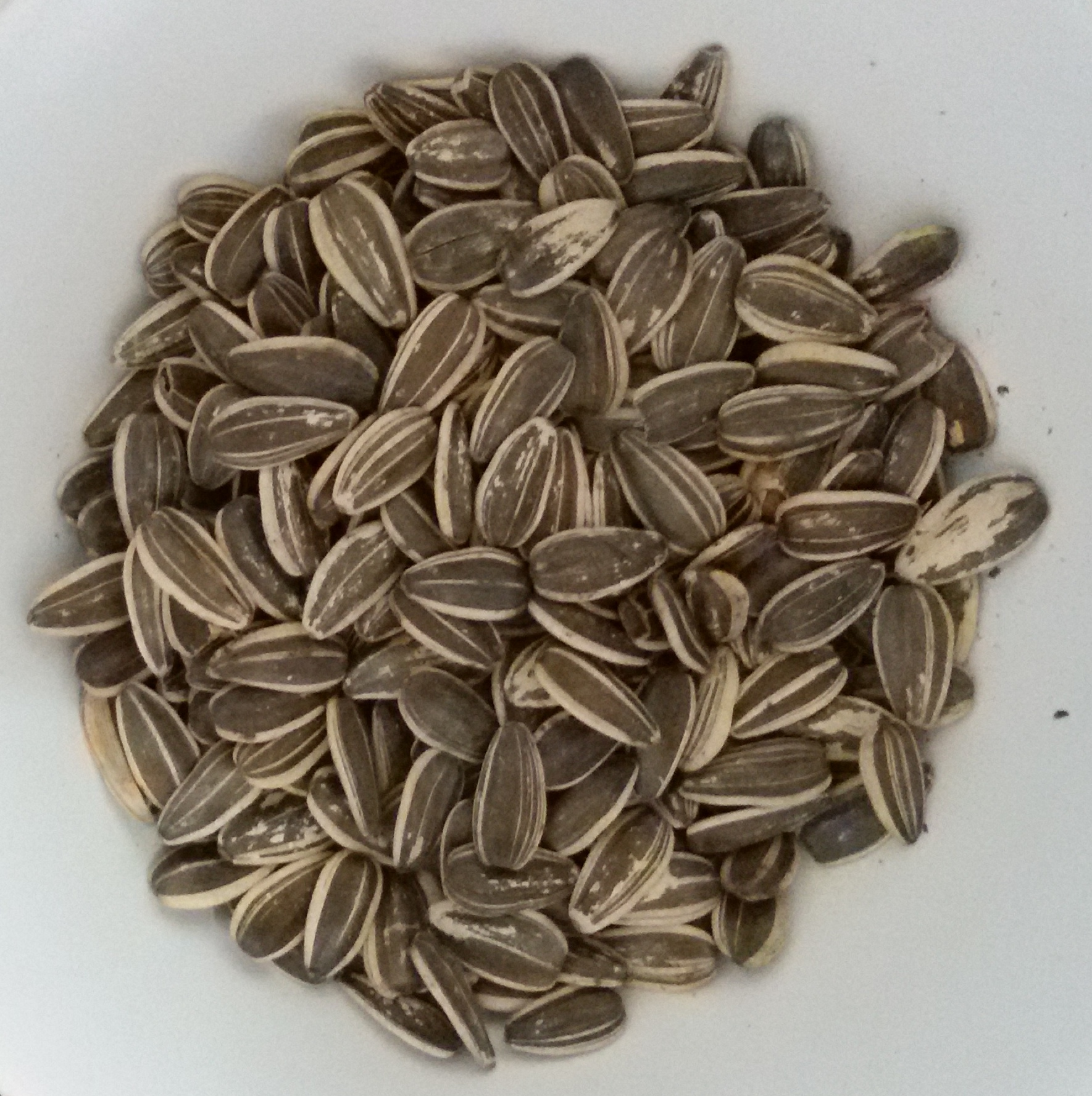 Sunflowers seeds as snack